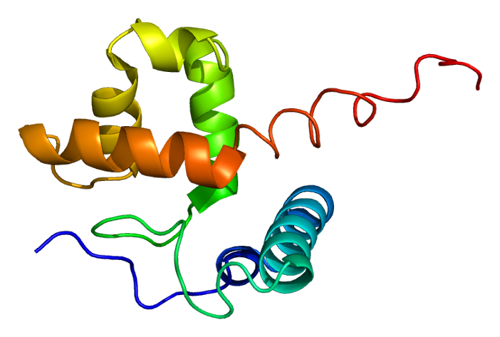 Structure of the ARID1A protein. Based on PyMOL rendering of PDB 1ryu.